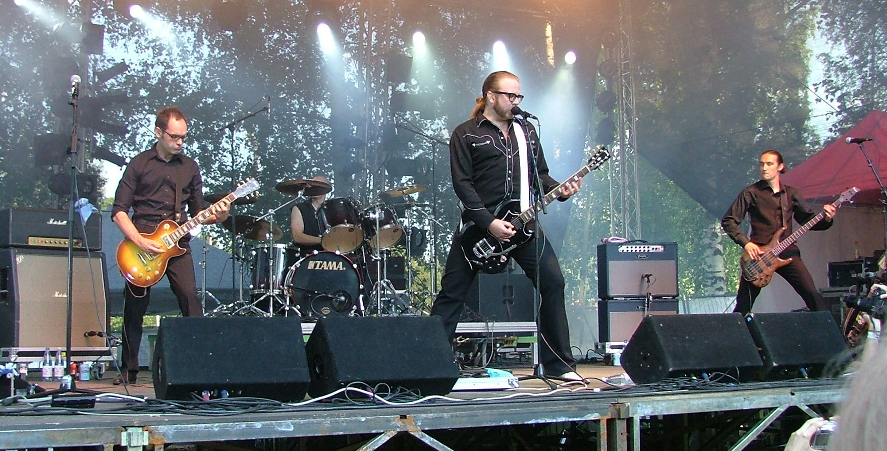 Finnish metal band Viikate in Kuopio at Rockcock-musicfestival